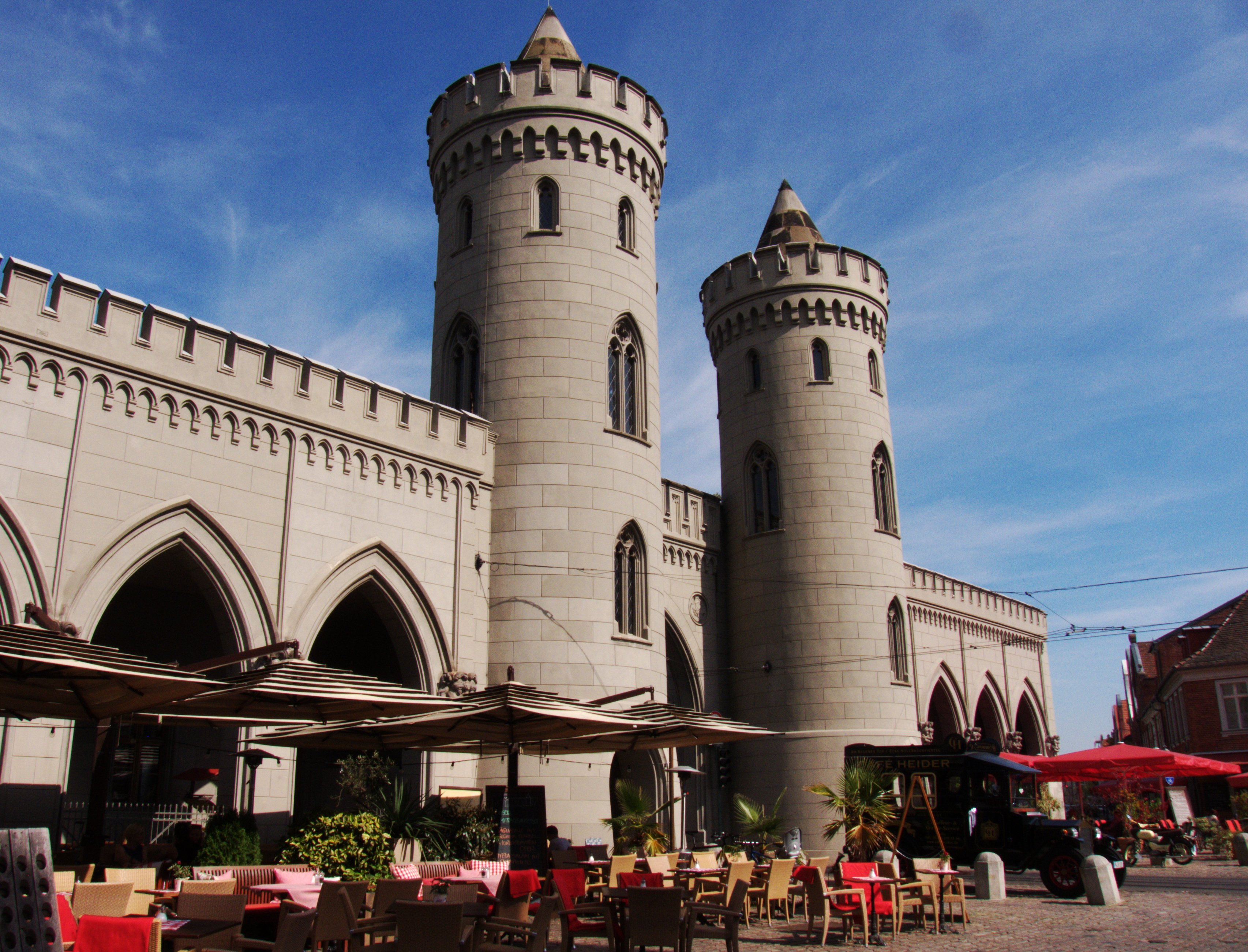 The Nauener Tor in Potsdam with Restaurants in front of it and the vintage car of the well-known Café Heider.